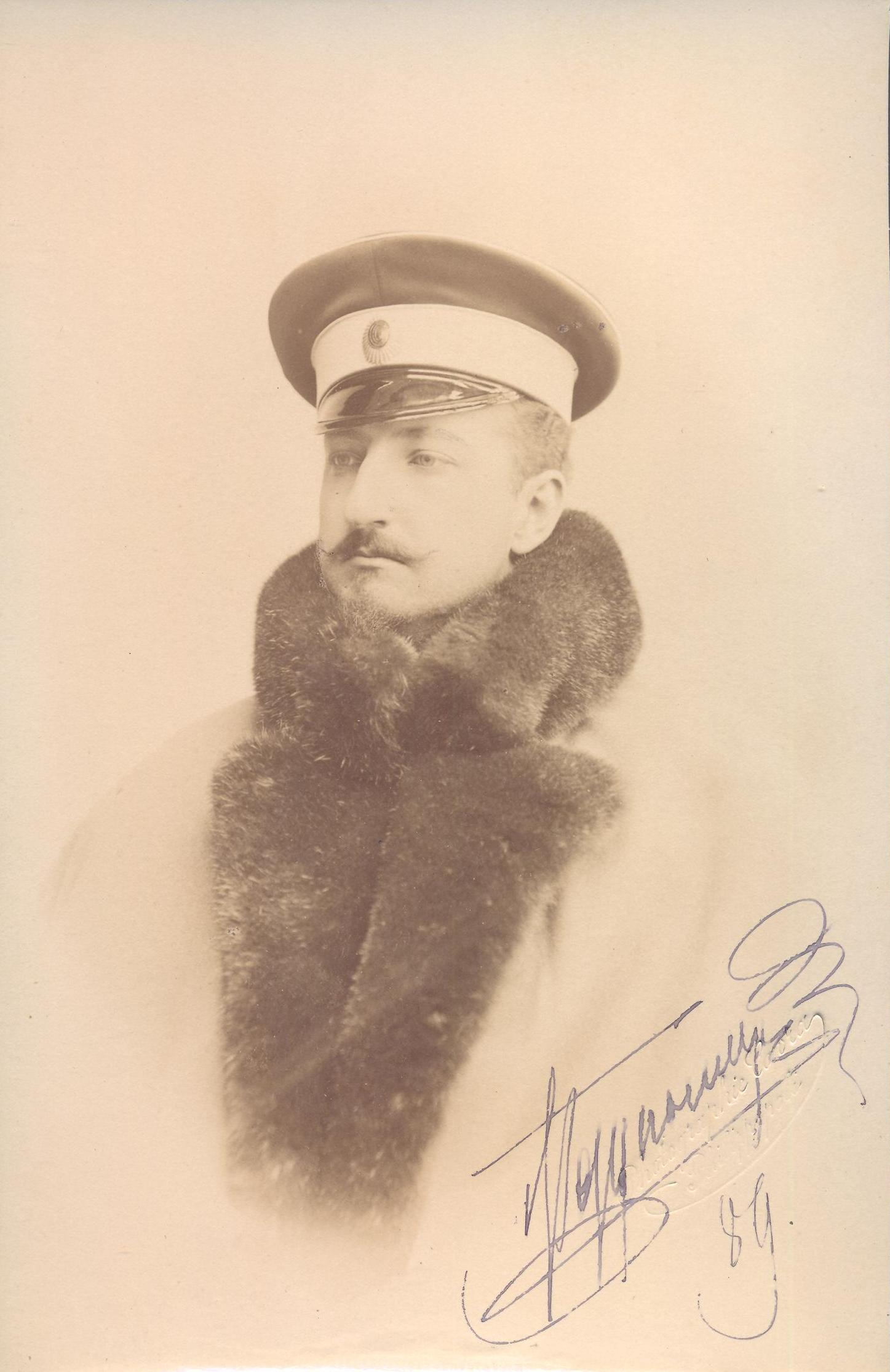 Ferdinand I of Bulgaria, 1889.